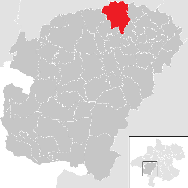 District Vöcklabruck